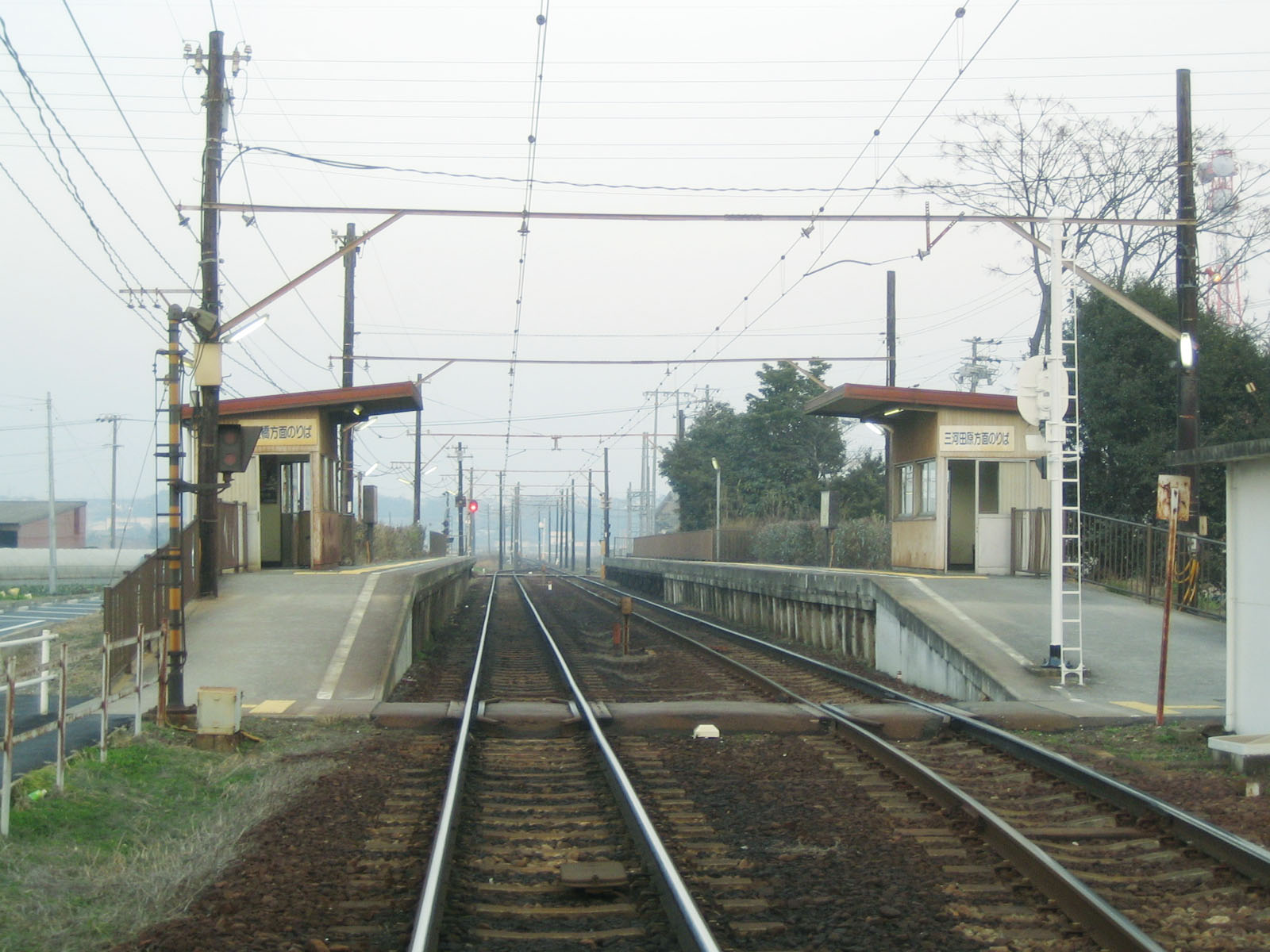 Ueta Station (植田駅), in Aichi, Japan